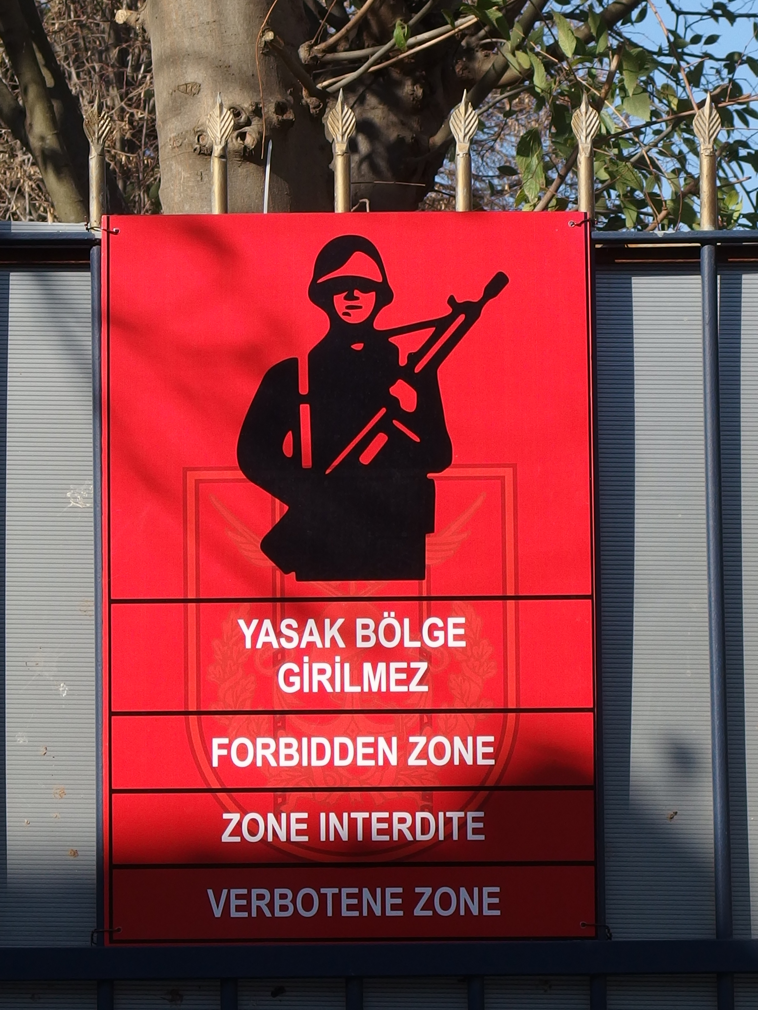 2013-12-06 in Istanbul.